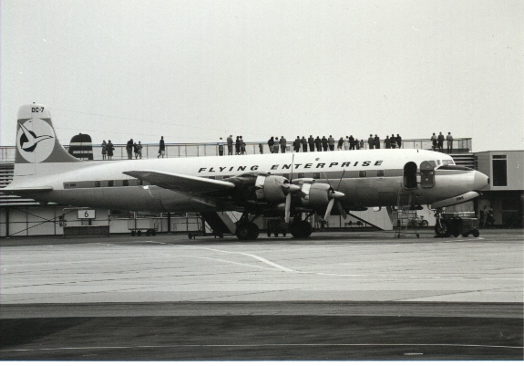 Douglas-DC7